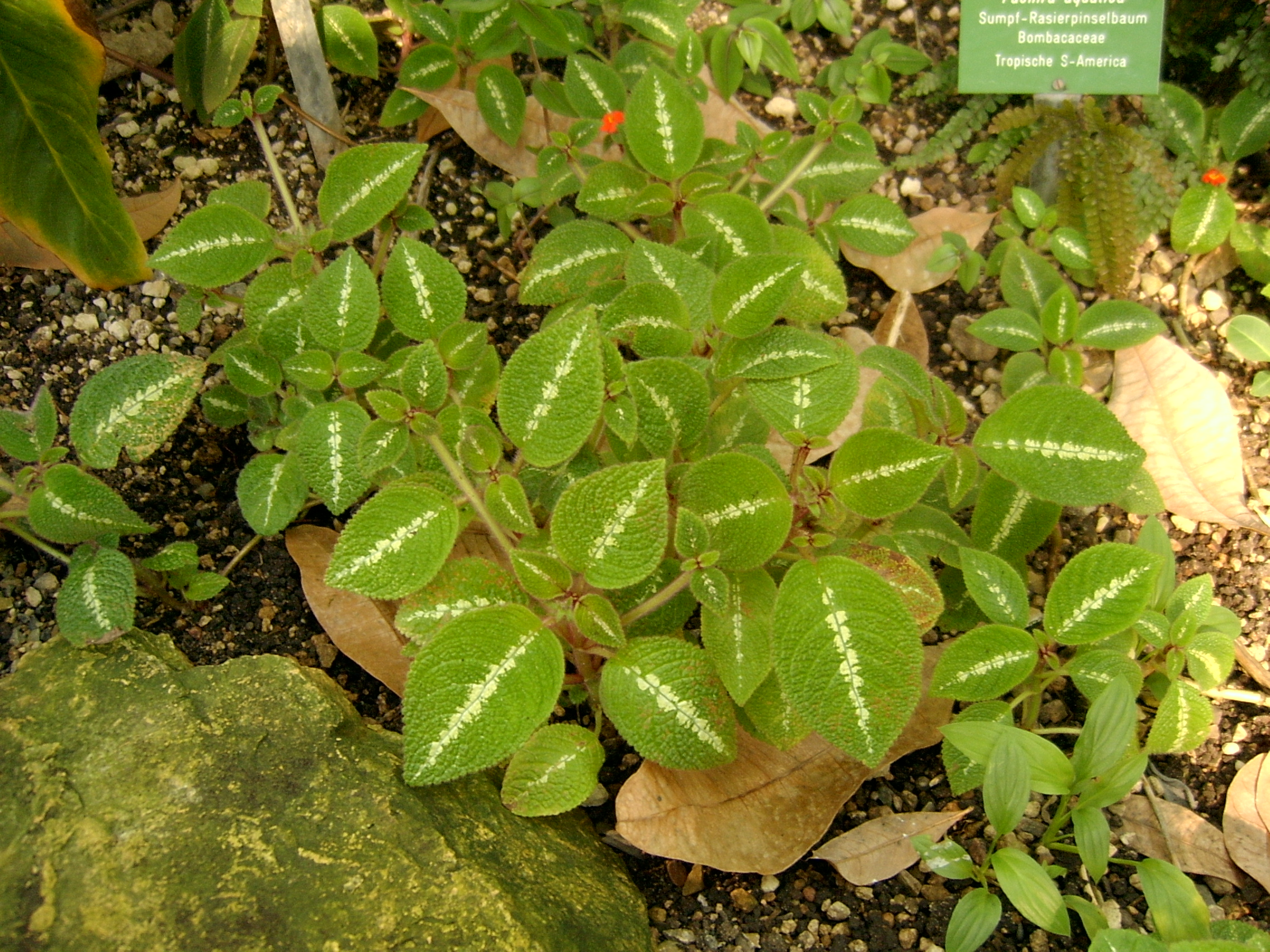 Episcia cupreata. Taken in the botanic garden of Osnabrück.